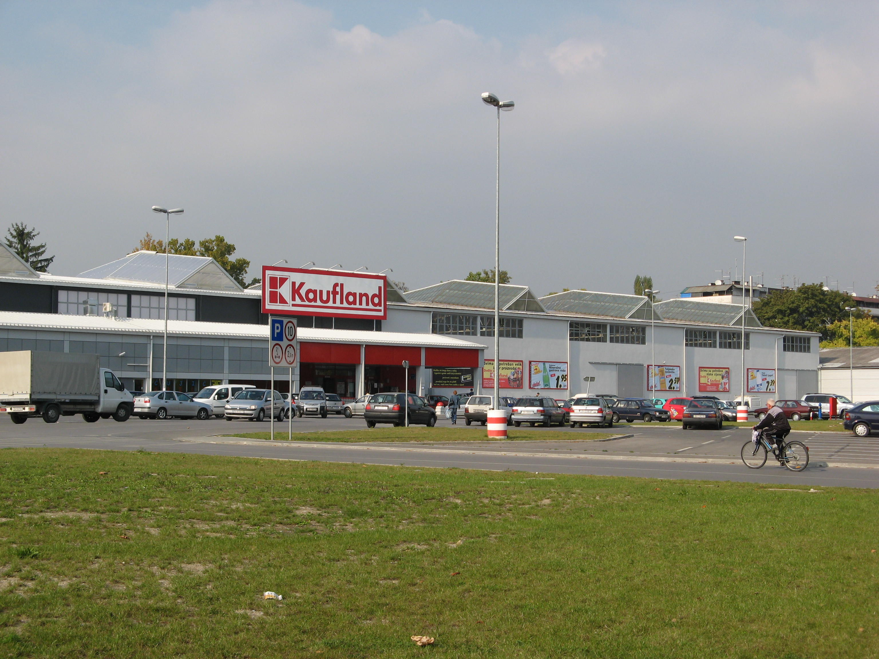 Kaufland supermarket in Zagreb, Croatia.